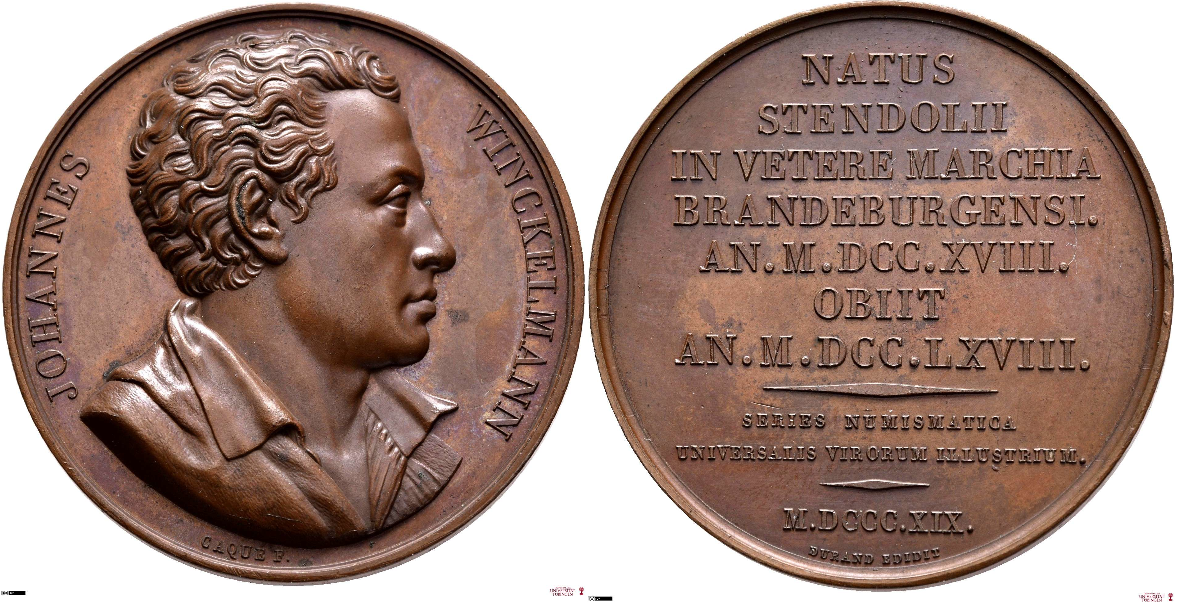 The front side depicts a bust of Winckelmann surrounded by his name. Below the engraver Armand Auguste Caqué signed. The back side lists his place of birth as well as his year of birth and death. Below the name the series this medal belongs to is given. Finally we find the year of coinage and the name of the editor, Amédée Durand, of said series.